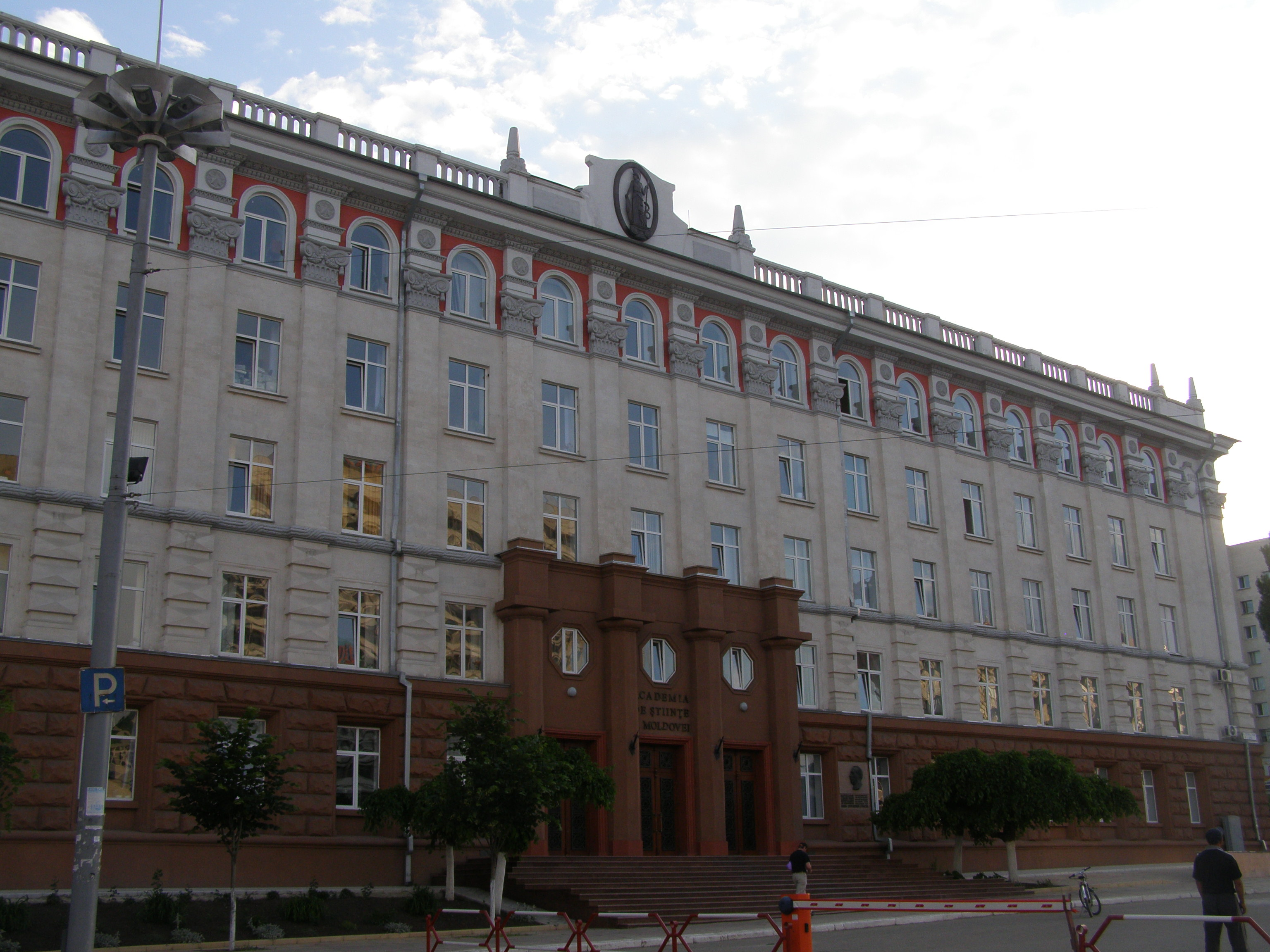 The building of the Academy of Science of Moldova in Chisinau